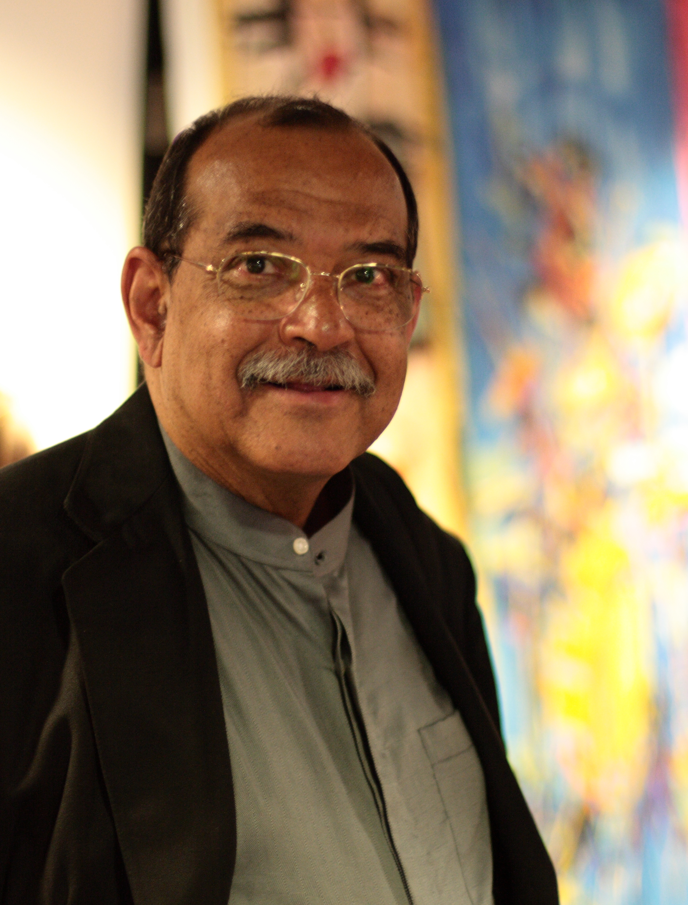 Ernie Watts: A wonderful, gentle person as well as a fabulous sax man!